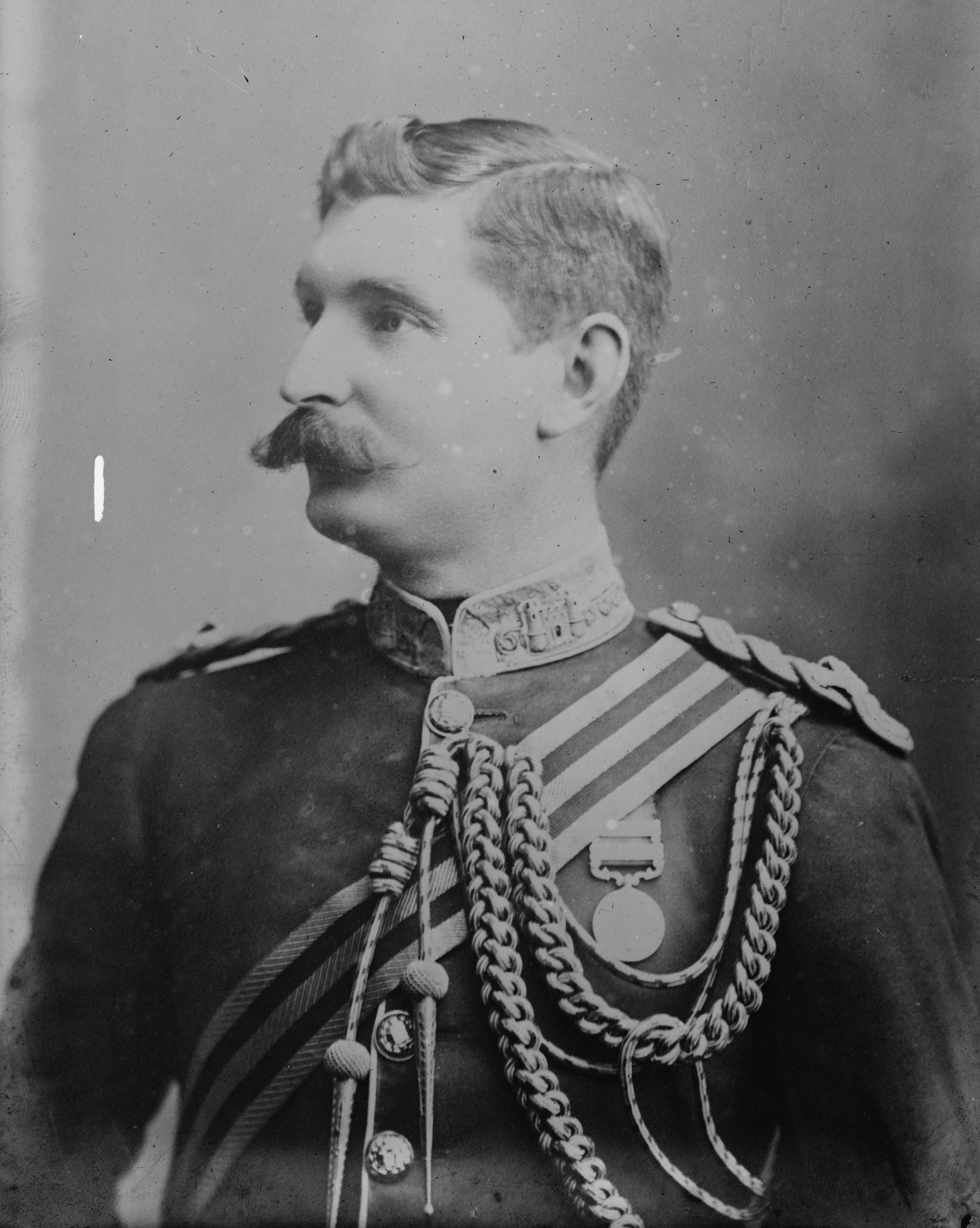 Title: Lord Montague of Beaulieu Abstract/medium: 1 negative : glass ; 5 x 7 in. or smaller.